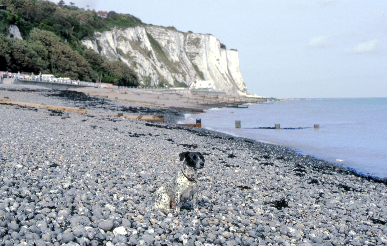 Dog blends into surroundings on pebbly beach at St Margaret's Bay.